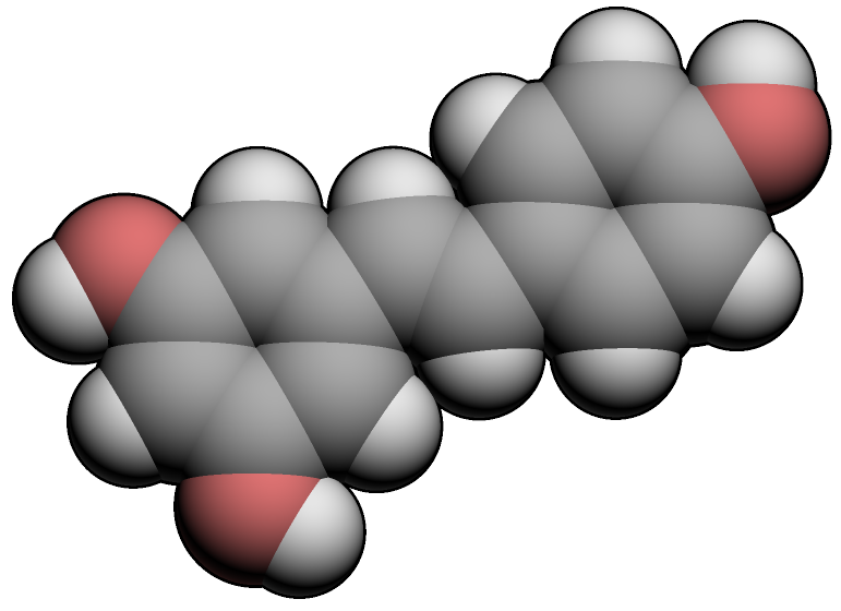 3d molecular spacefill of Resveratrol